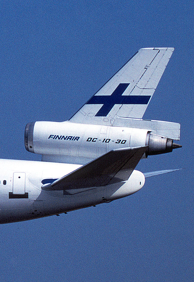 Tail of a McDonnell Douglas DC-10-30 aircraft of Finnair.